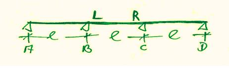 Three span beam